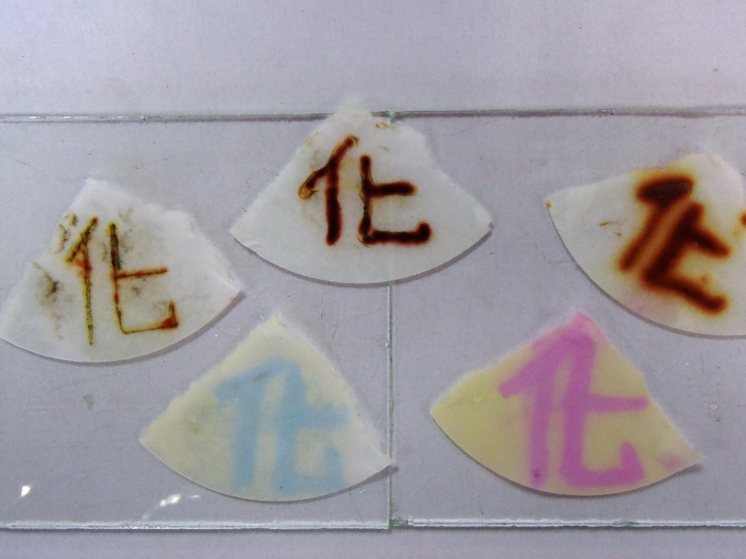 electrolysis2